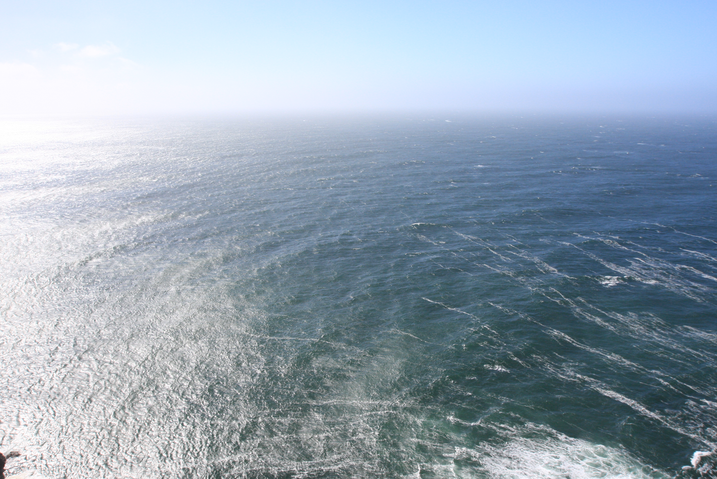 Water wave is diffracted around the rocky outcrop of Point Reyes, forming circular ripples. Reflection of the Sun is seen on the left of the photo. The photo was taken along the staircase leading down to the Point Reyes lighthouse, Point Reyes National Seashore, California, USA.